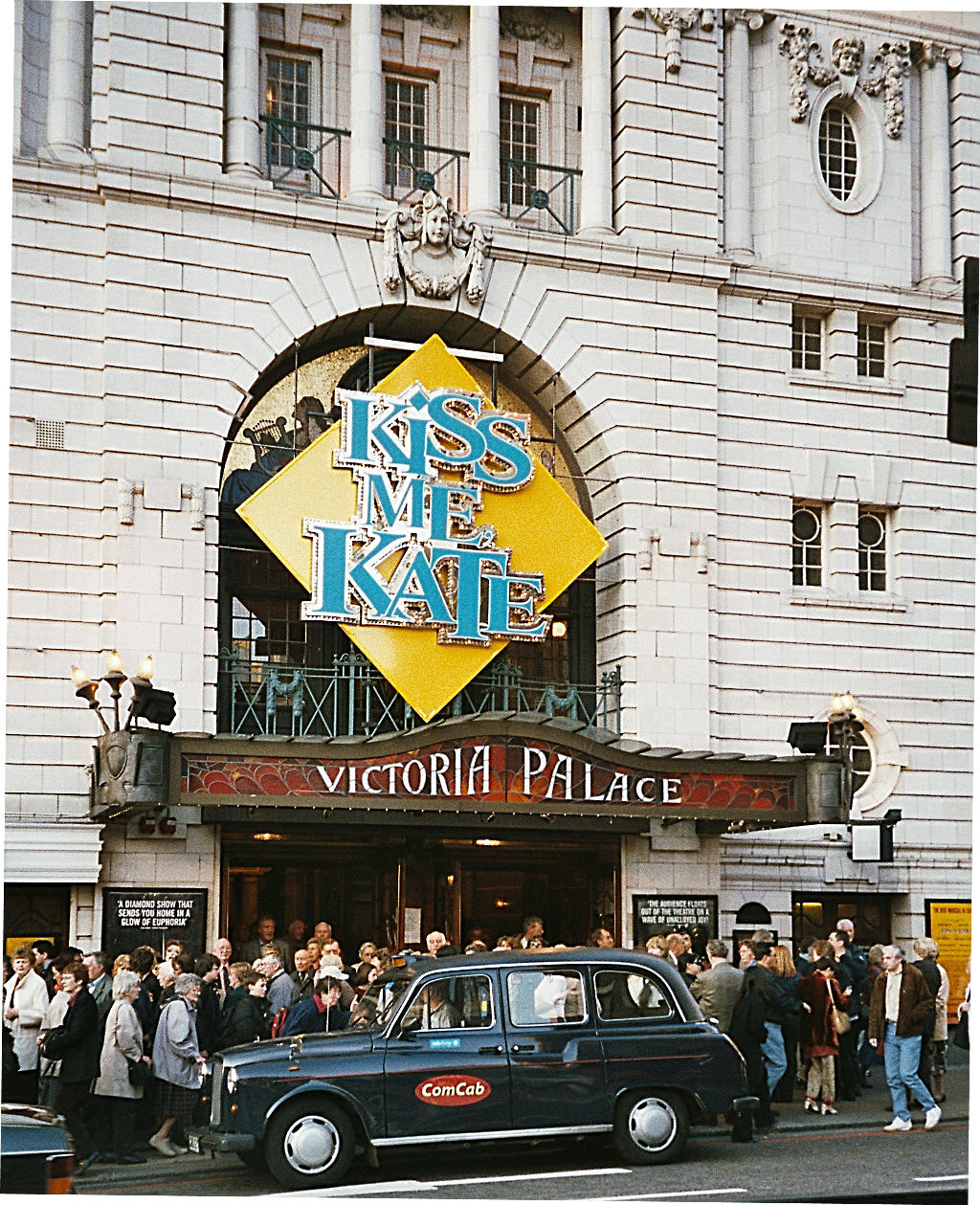 Photo by KF, Easter 2002.